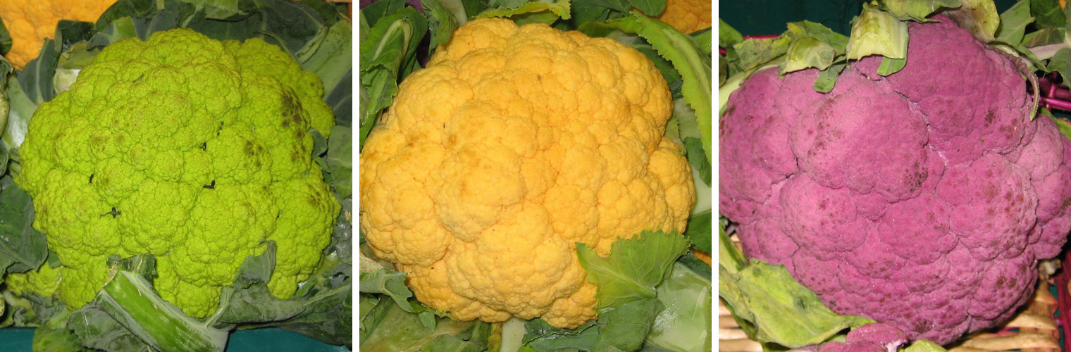 Green, yellow and purple cauliflower in the shop window of a fruit and vegetable market